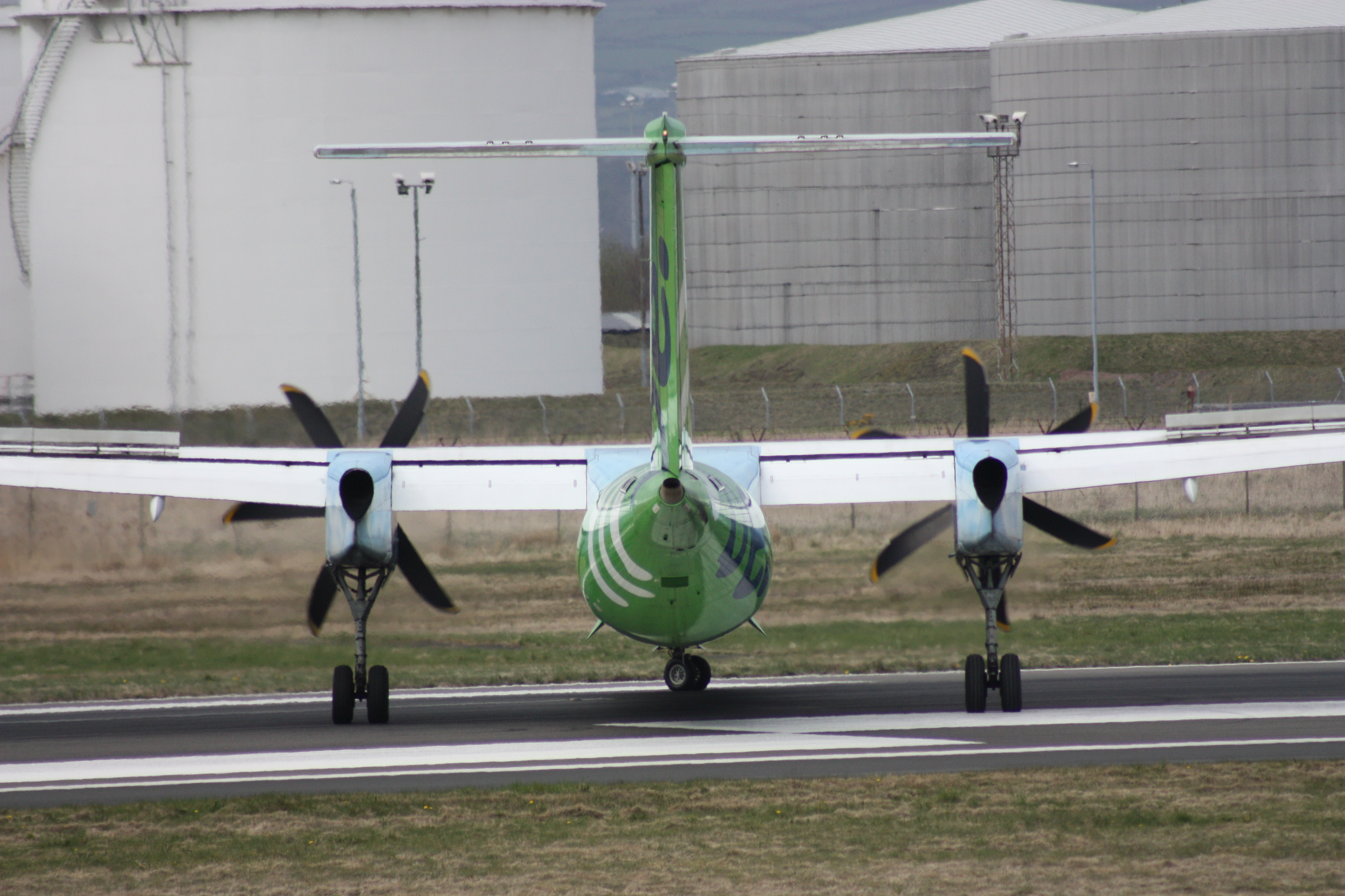 Flybe Dash 8-Q400 aircraft (G-JEDP) turning mid-runway after landing at Belfast City Airport, Belfast, Northern Ireland, April 2010